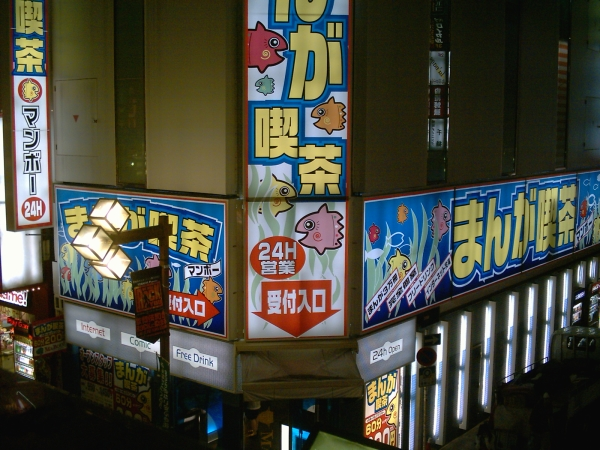 Internet_cafe Tokyo japan